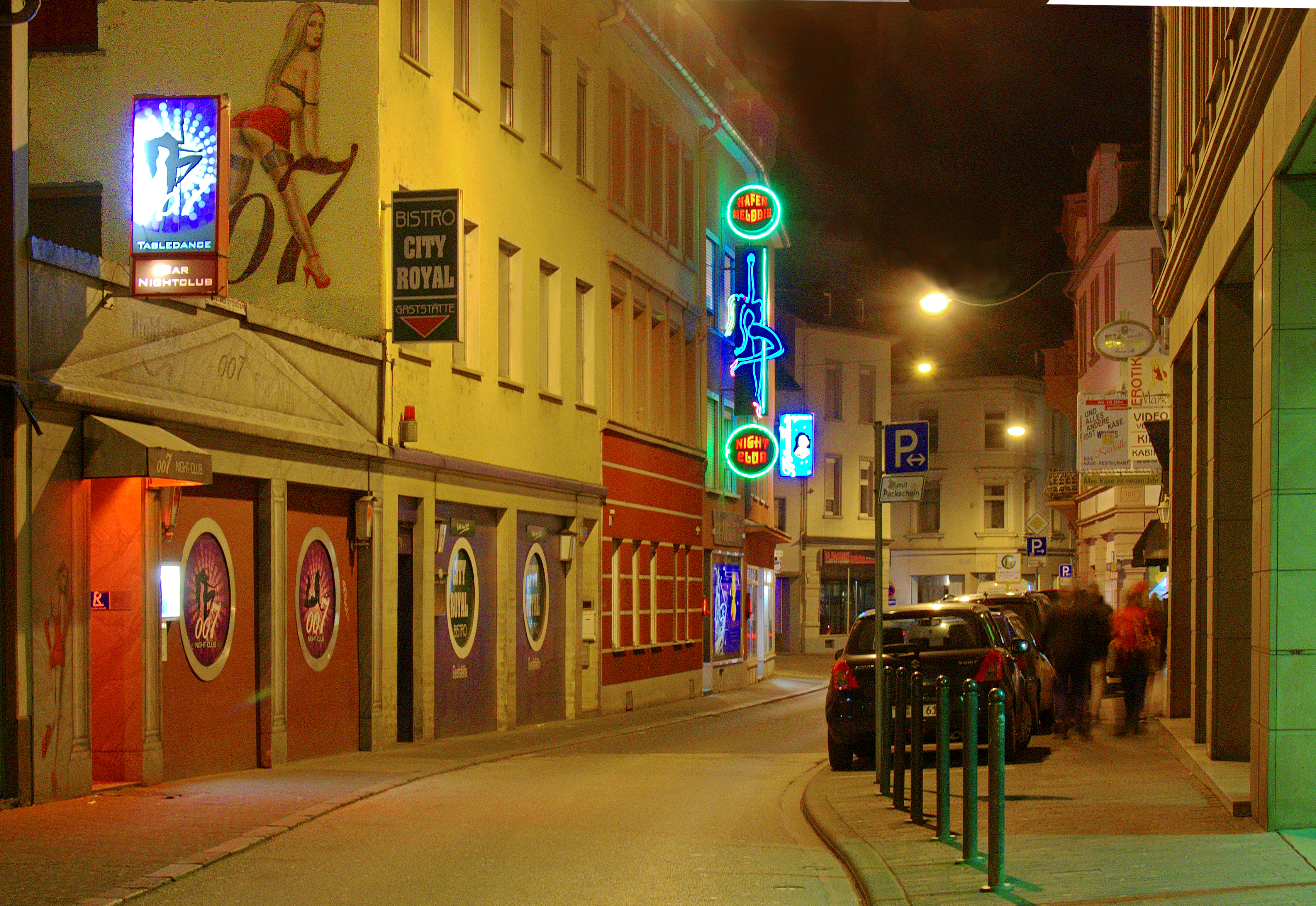 Trier (Germany), Table Dance Bar 007 and brothel Hafenmelodie (harbour melody) Karl-Marx Street